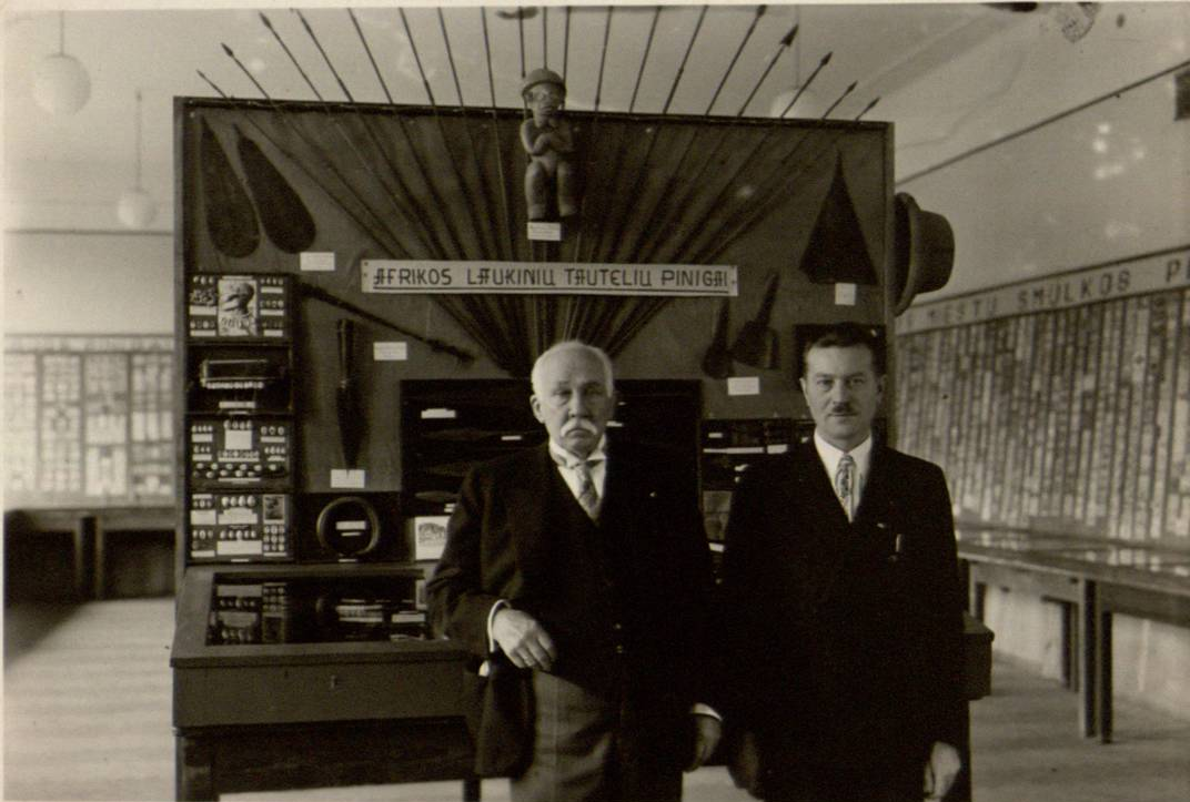 Collector Aleksandras Račkus (right) with Eduardas Volteris in front of the numismatic exposition at Vytautas Magnus Museum of Culture in Kaunas.